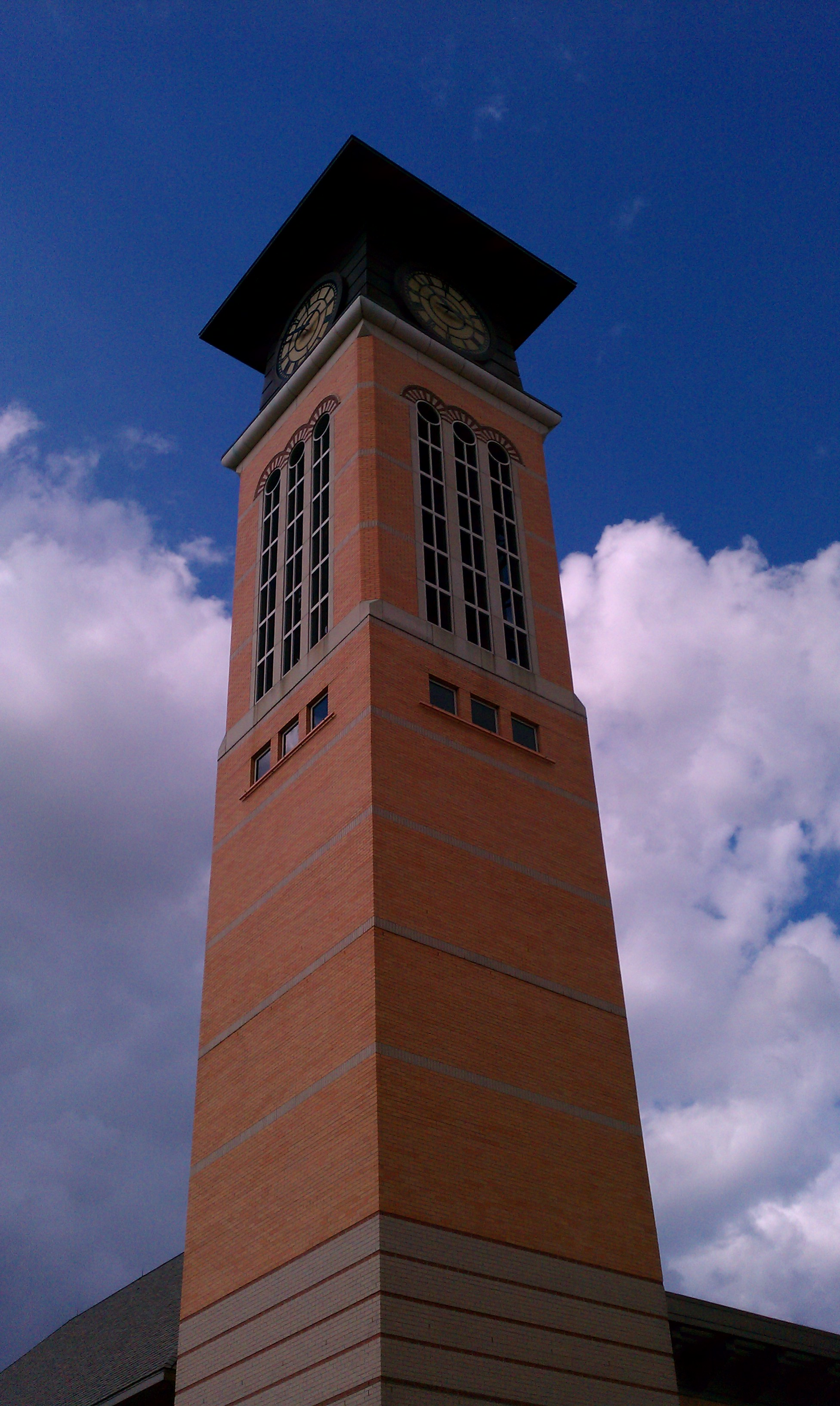 151 foot carillon located in Grand Rapids, Michigan on the Pew Campus of Grand Valley State University, 2011